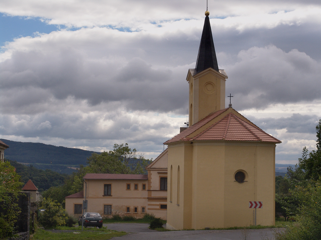 Chapel of St Procopius (of Sázava) from 1868 in Staňkovice, Litoměřice District, Czech Republic (photographed in 2005).